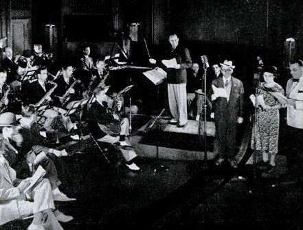 Como and Ted Weems Orchestra in NBC studio for Fibber McGee and Molly program. Copyright details There are no copyright marks on the full pages of the ad, as can be seen at the link above. The pages are clearly marked as advertisements, so they are not a part of any Life Magazine copyrights. US Copyright Office page 3-magazines are collective works (PDF) "A notice for the collective work will not serve as the notice for advertisements inserted on behalf of persons other than the copyright owner of the collective work. These advertisements should each bear a separate notice in the name of the copyright owner of the advertisement." Image can be dated from the magazine's date, April 12, 1937.